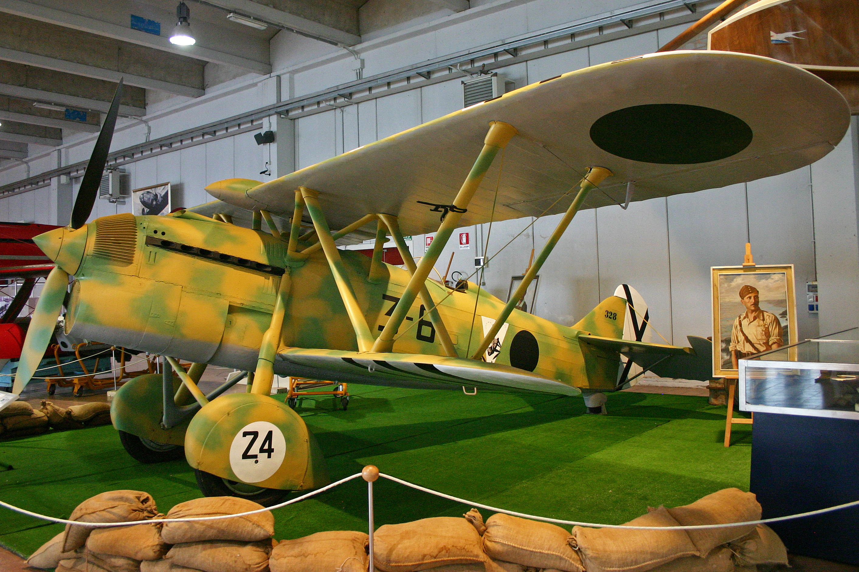 Displayed in Hangar VELO. Spanish built Fiat CR32. Restored into original Spanish Civil War markings as '328', actually C.1-328.